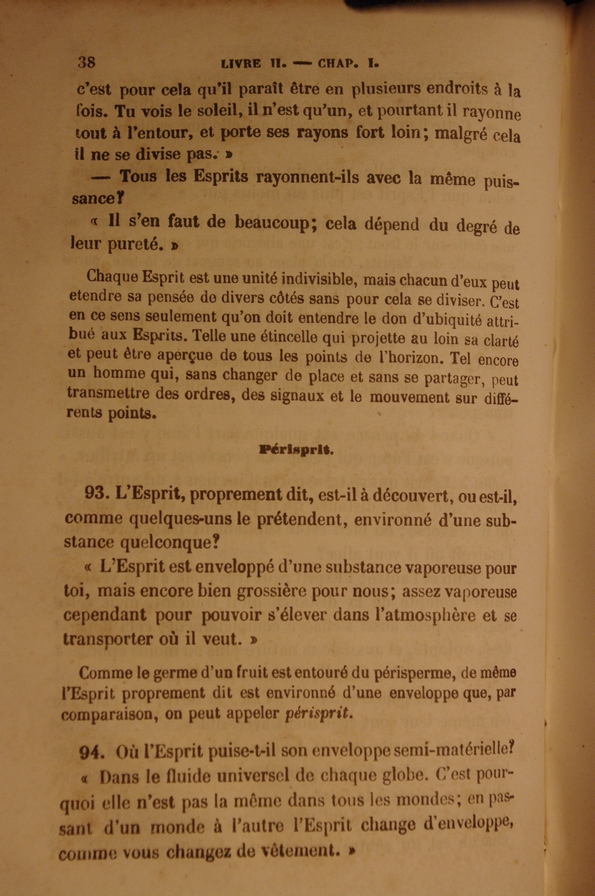 The Spirits Book (Le Livre des Esprits in original French) is part of the Spiritist Codification, and is regarded as one of the five fundamental works of Spiritism by the French educator Allan Kardec on April 18, 1857.